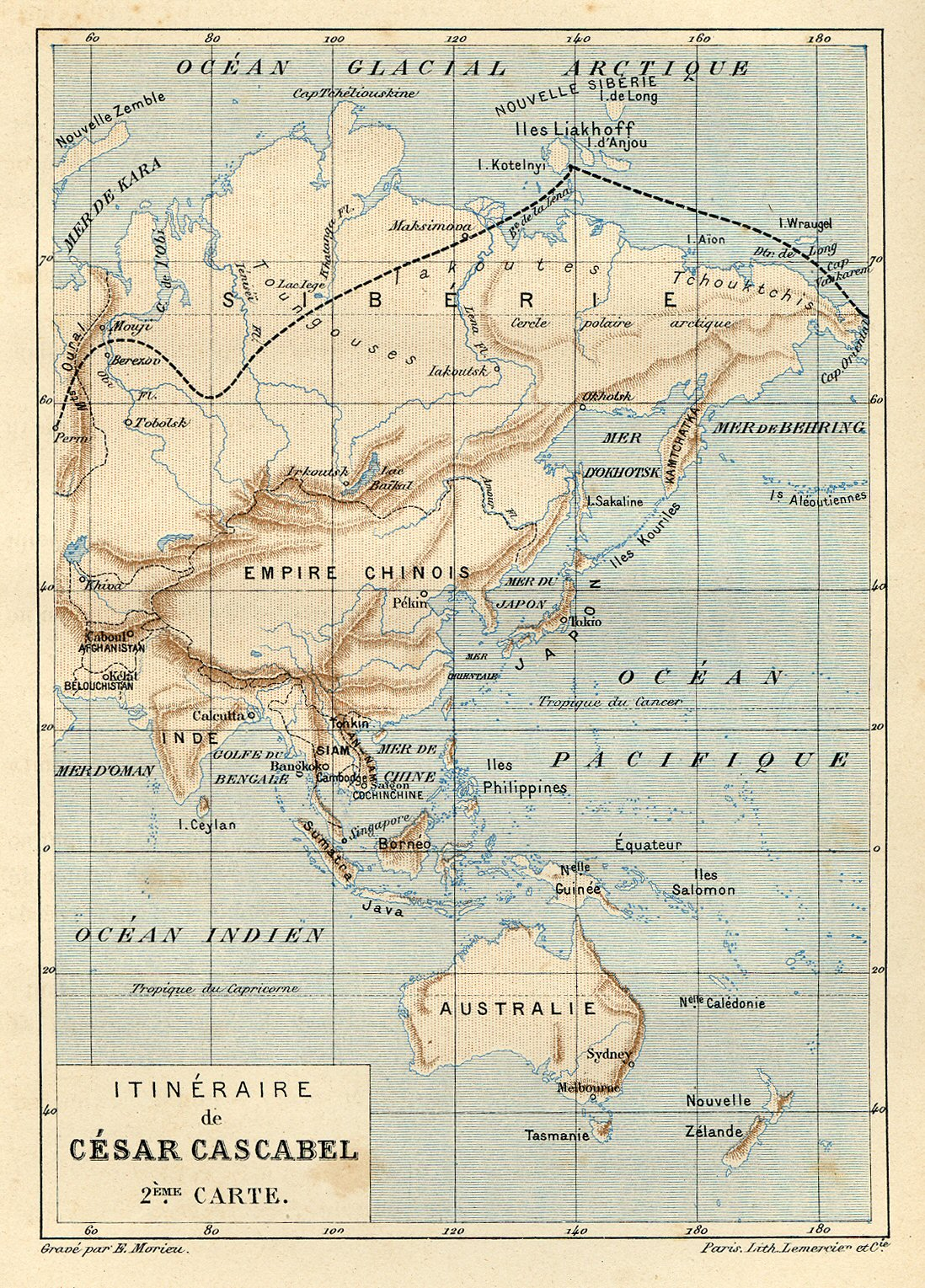 An illustration from Jules Verne's novel "César Cascabel" (1890) drawn by George Roux.